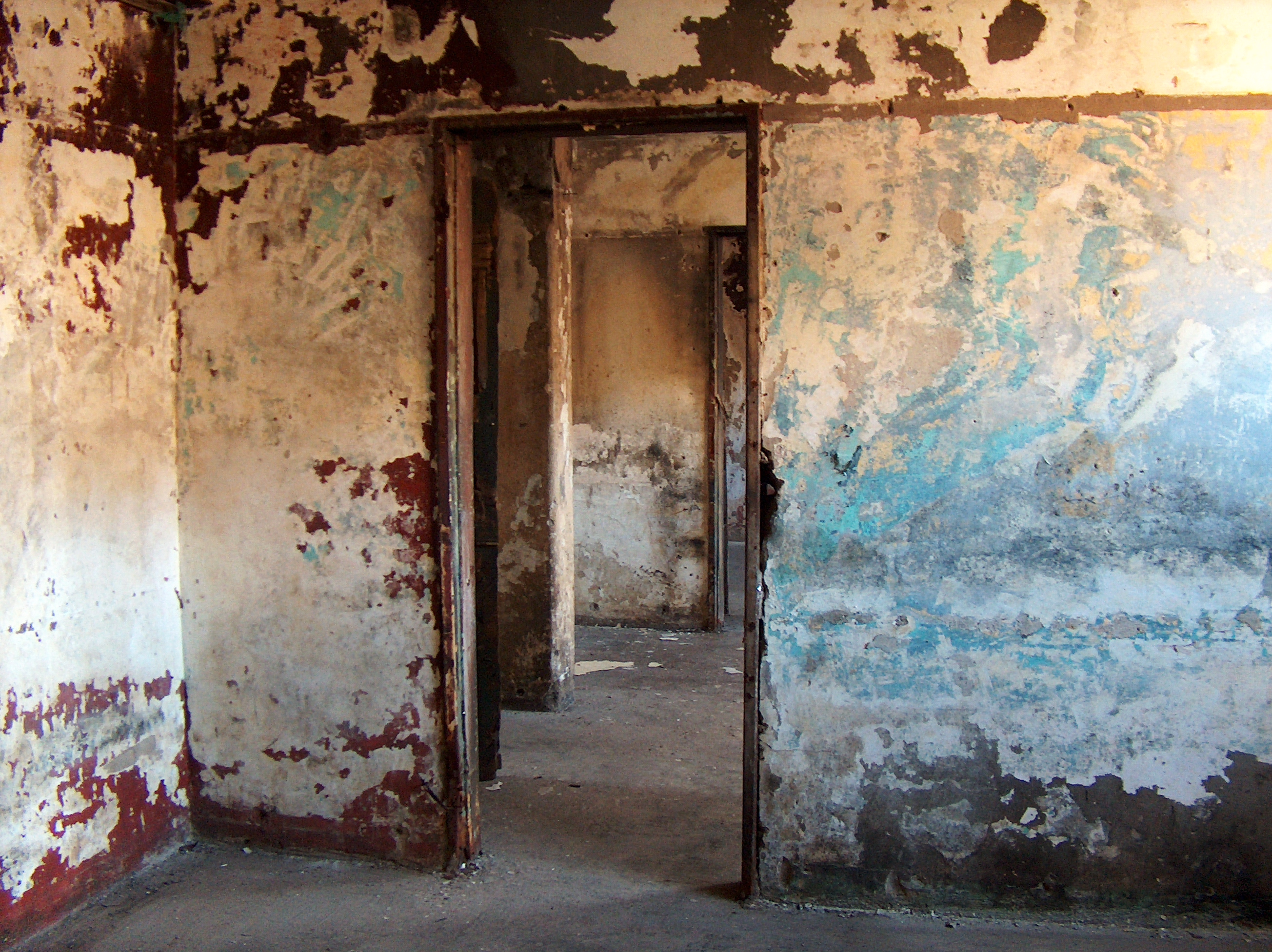 Chancellor House, where Oliver Tambo and Nelson Mandela had their law firm, this photograph was taken before the renovations. This media shows a South African Protected Site with SAHRA file reference [1].provisional monument 1999